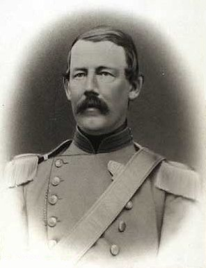 Carl Eduard von Beck (1819-1904), Danish Colonel and industrialist